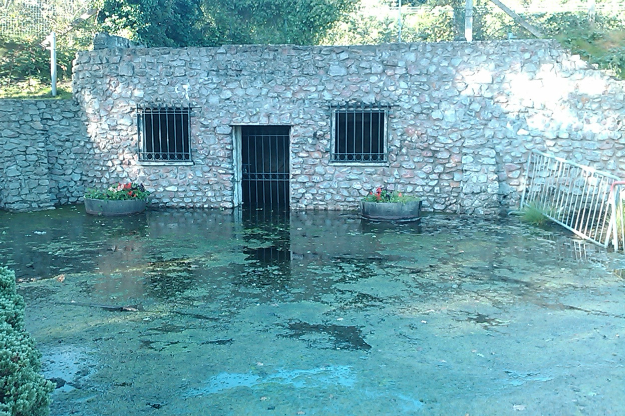 Taffs well Thermal Spring Flooded temporary thermal pool